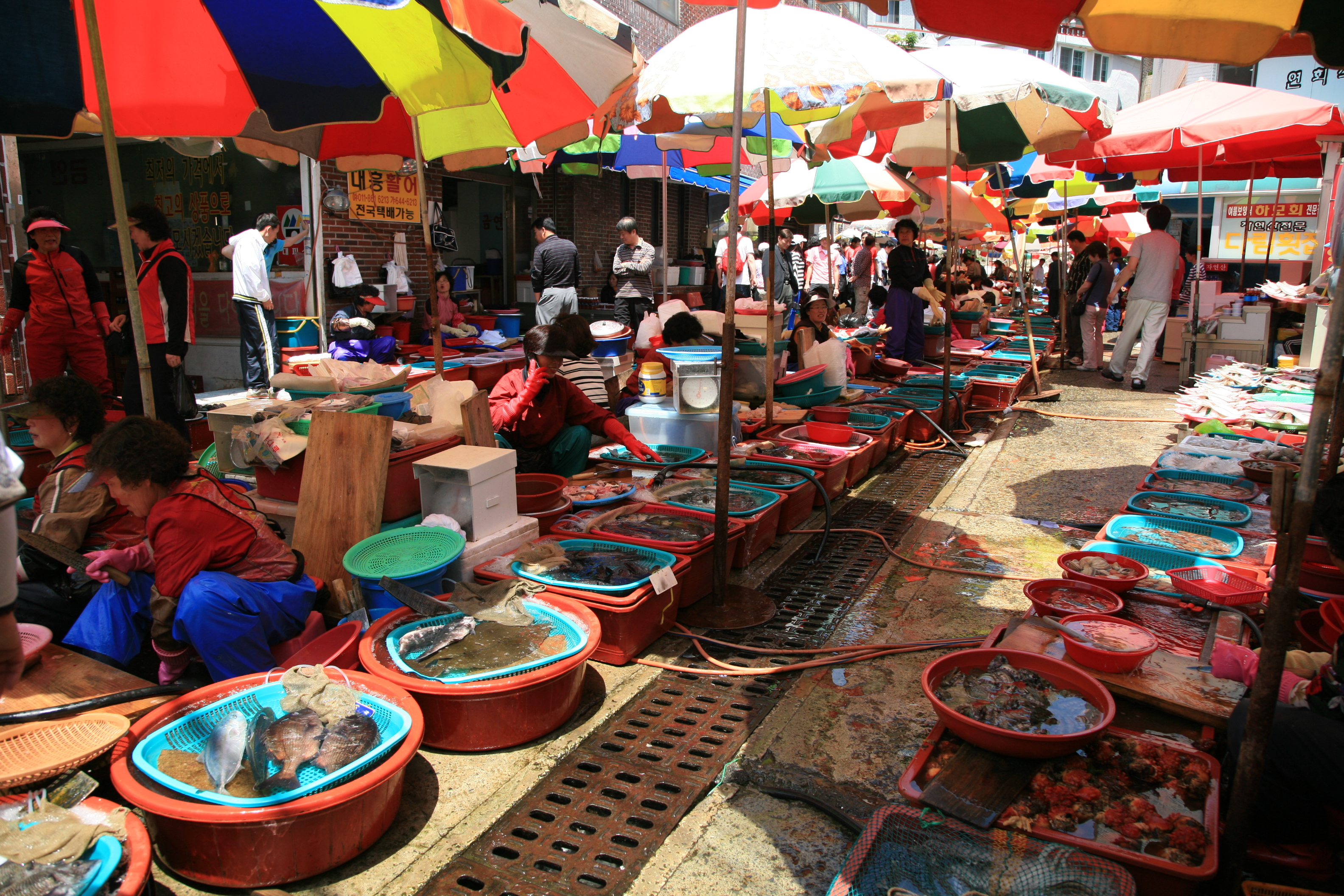 View of Tongyeong, South Gyeongsang province, South Korea